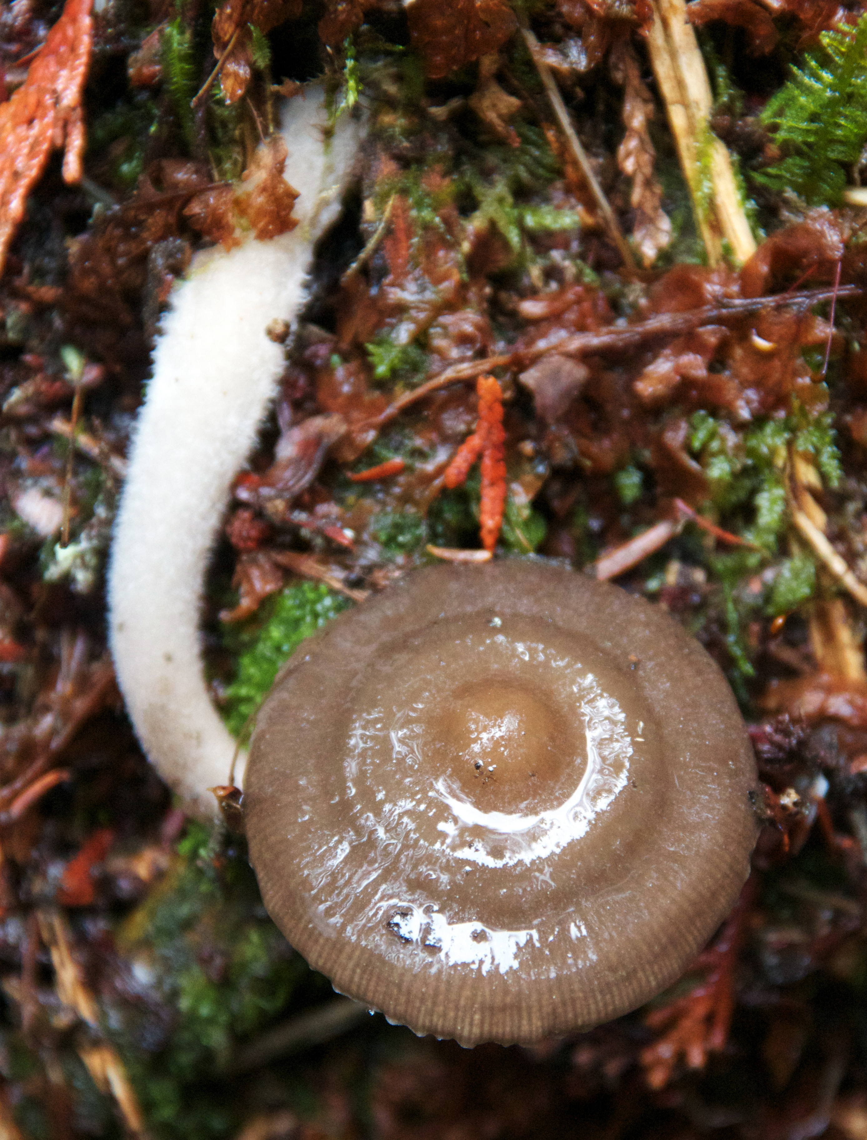 Fruit body of the fungus Mycena overholtsii A.H.Sm. & Solheim. Specimen photographed in Revelstoke, British Columbia, Canada, in an old-growth cedar inland rainforest.